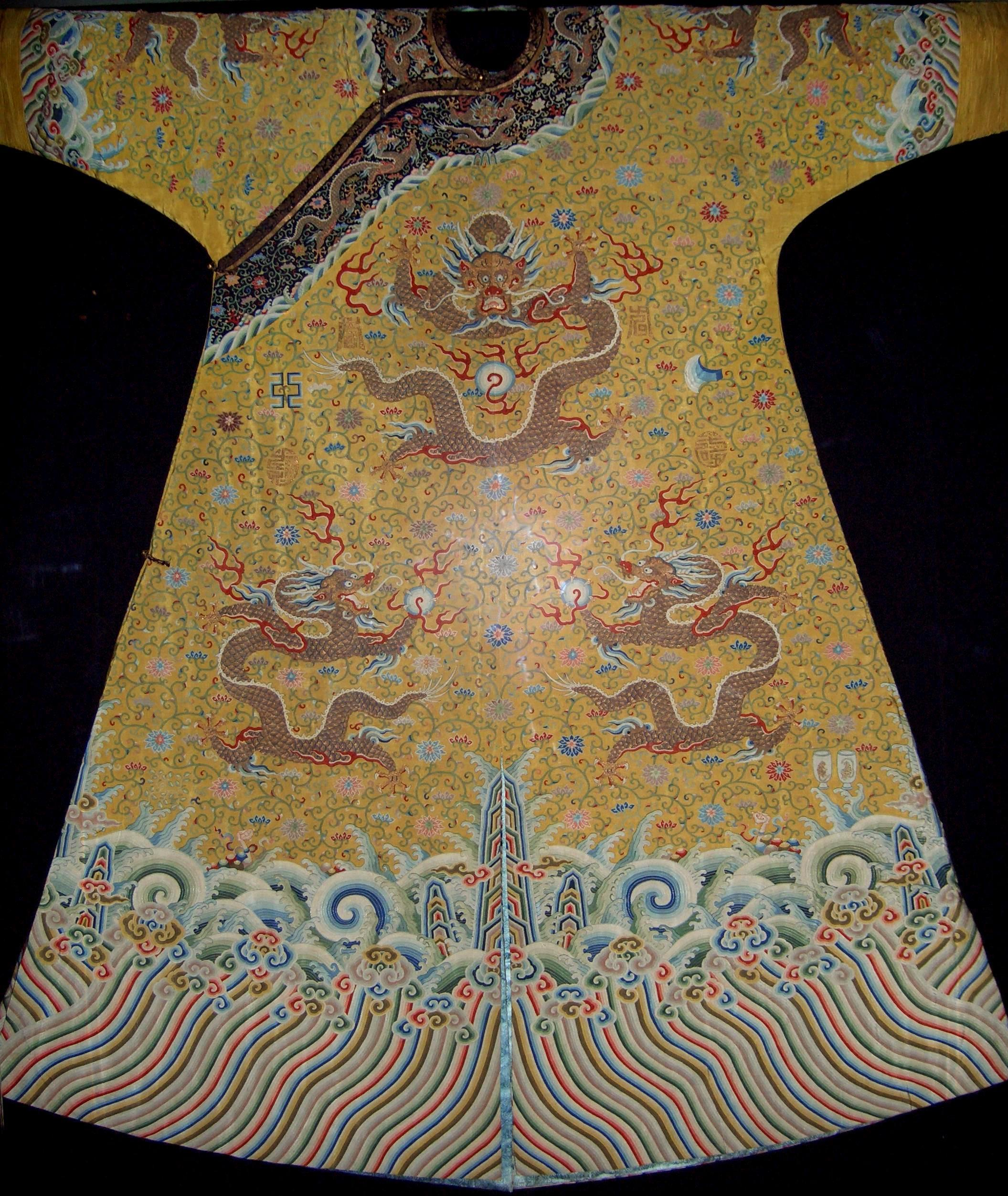 Dragon robe of Chinese Emperor Qianlong (1736-1796) 18th century Grassi Museum, Leipzig, Germany